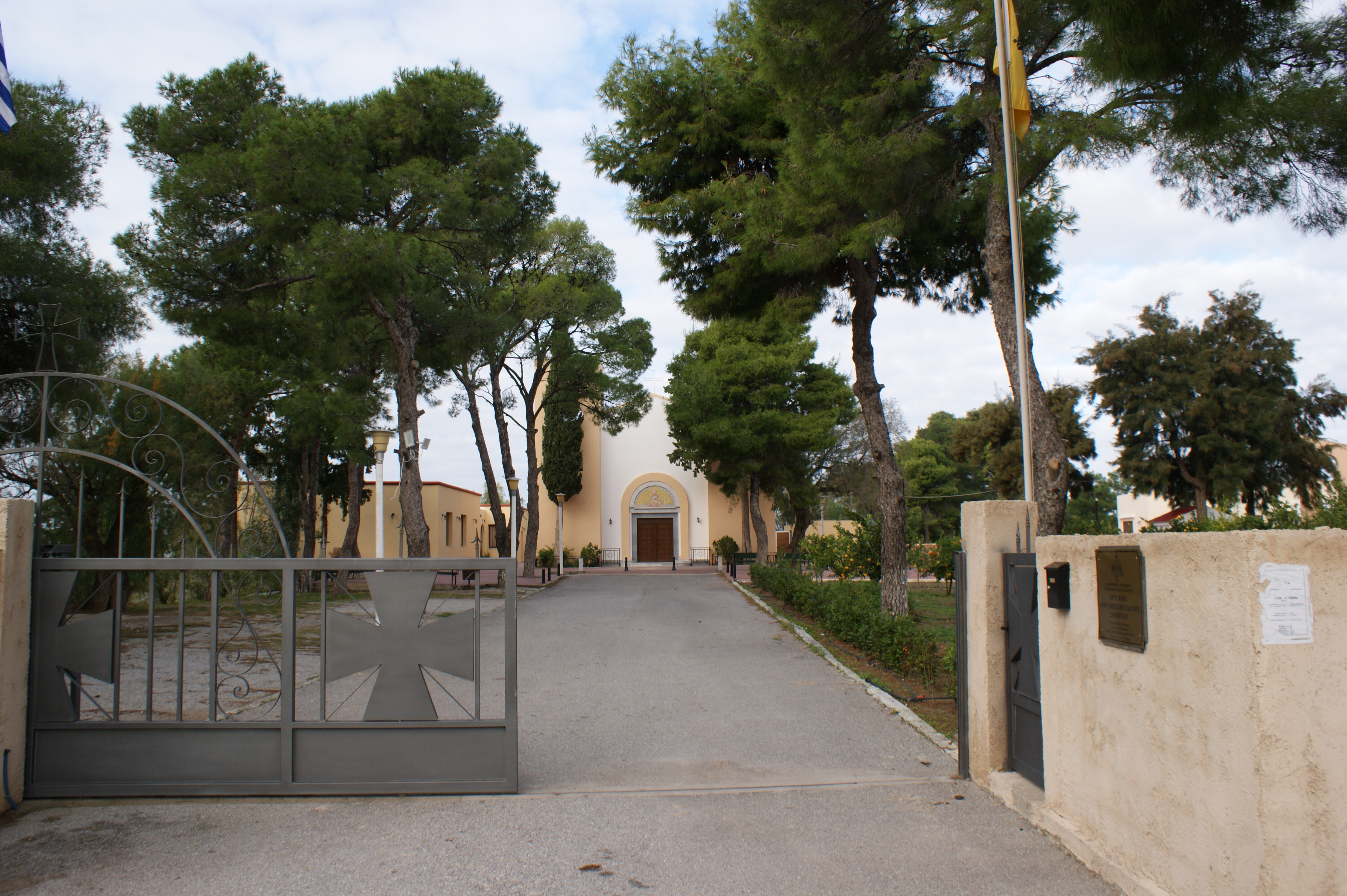 Church "Agios Pavlos" (Αγίος Παυλος, also: Αγιος Παυλος Λινοποτις) in Linopotis on the Greek island of Kos.